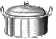 A fish kettle circa 1907